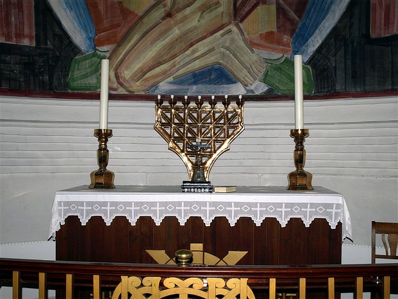 Gedser Kirke (church)